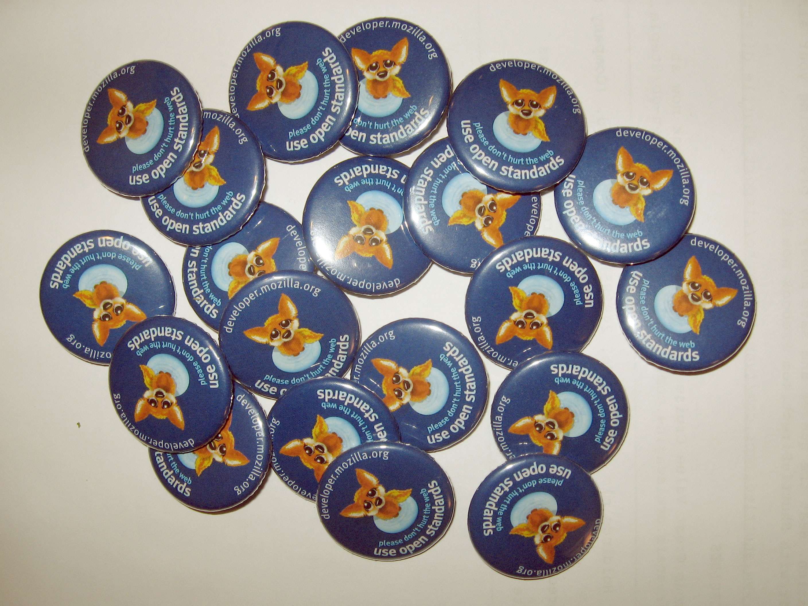 Mozilla "Please don't hurt the open web" buttons.